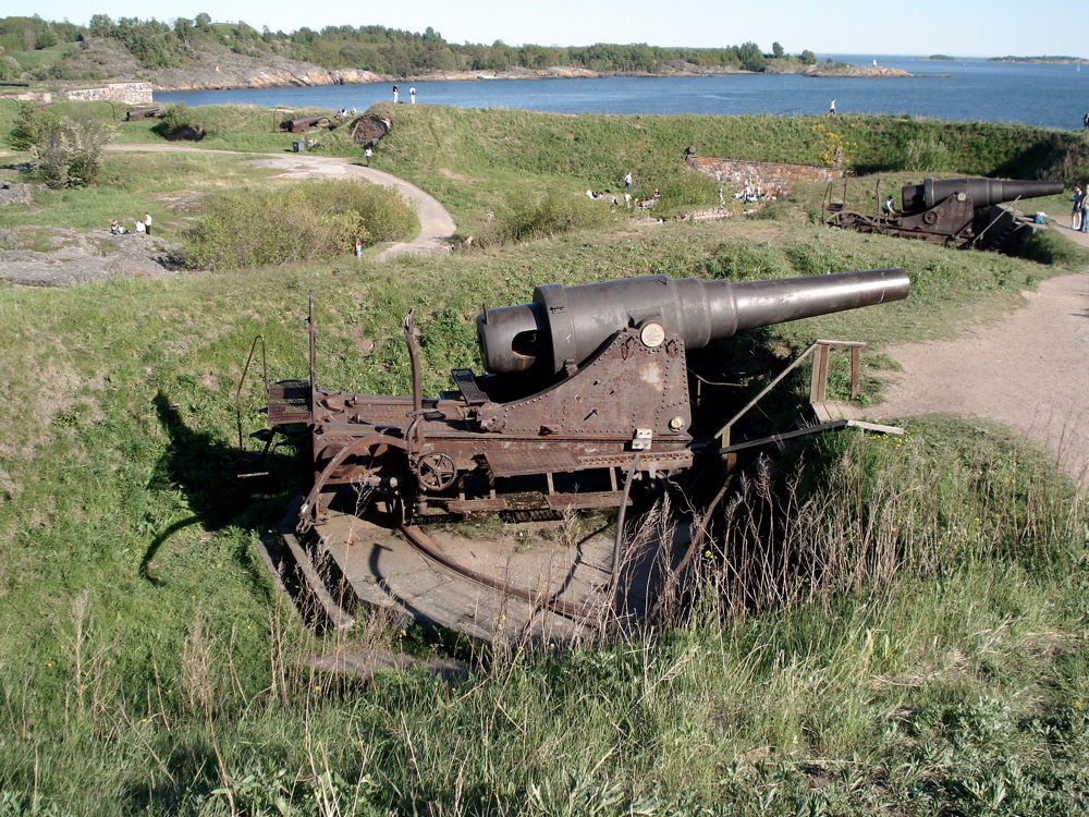 Russian coastal artillery guns, displayed in Suomenlinna fortress, Helsinki. Front: Krupp 28 cm gun (11-inch), made by F Krupp in 1870, N:o 4 Right: Russian license built copy, made at the Perm Ironworks in 1879, N:o 1880 Background: 229 mm naval guns M1867